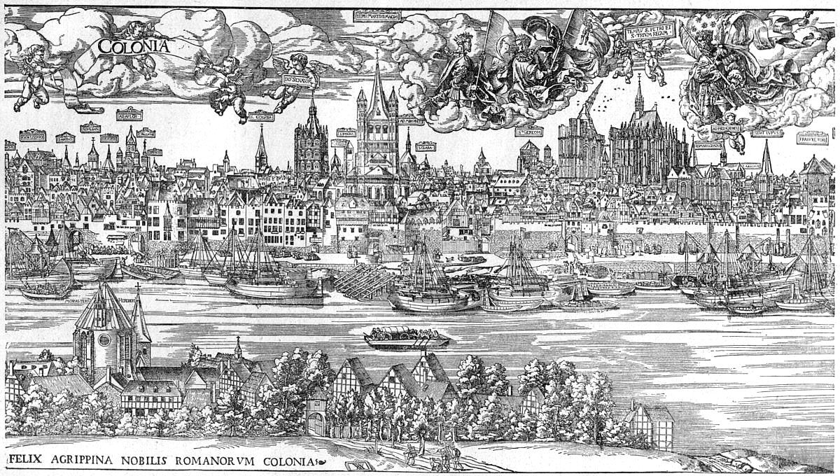 Woodcut of Cologne, Germany, 1531